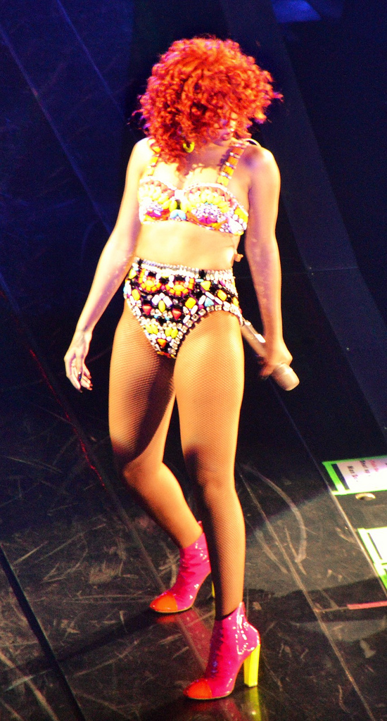 Rihanna live in Baltimore, on her tour The LOUD Tour. 4th June 2011